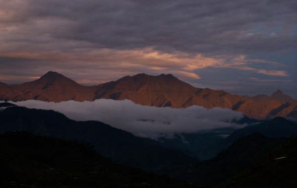 Andean mountains. The western range of the Andes mountains near Jardin, Antioquia, Colombia.